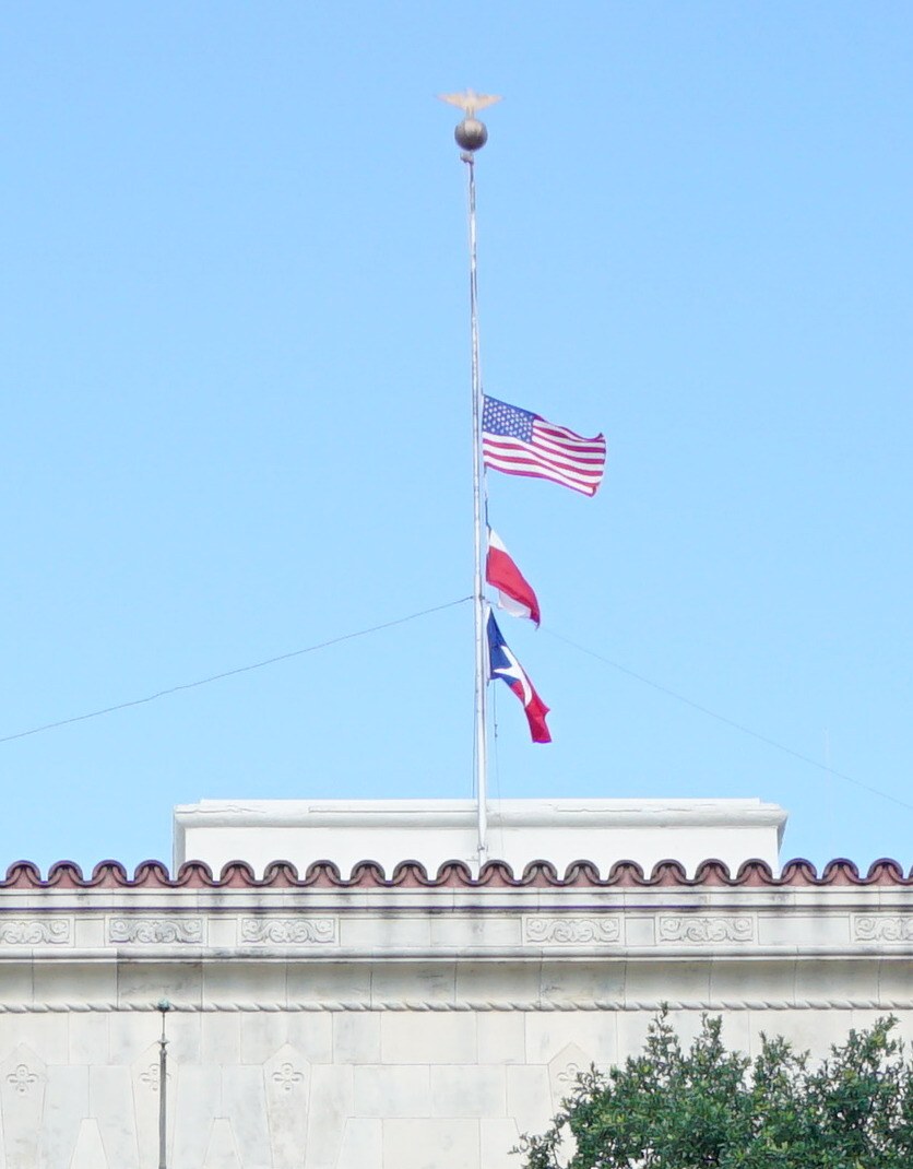 Flags flying over City Hall in San Antonio, Texas (United States).